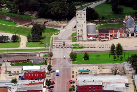 Aerial view of Main Street looking north. Image by Craig Sooter